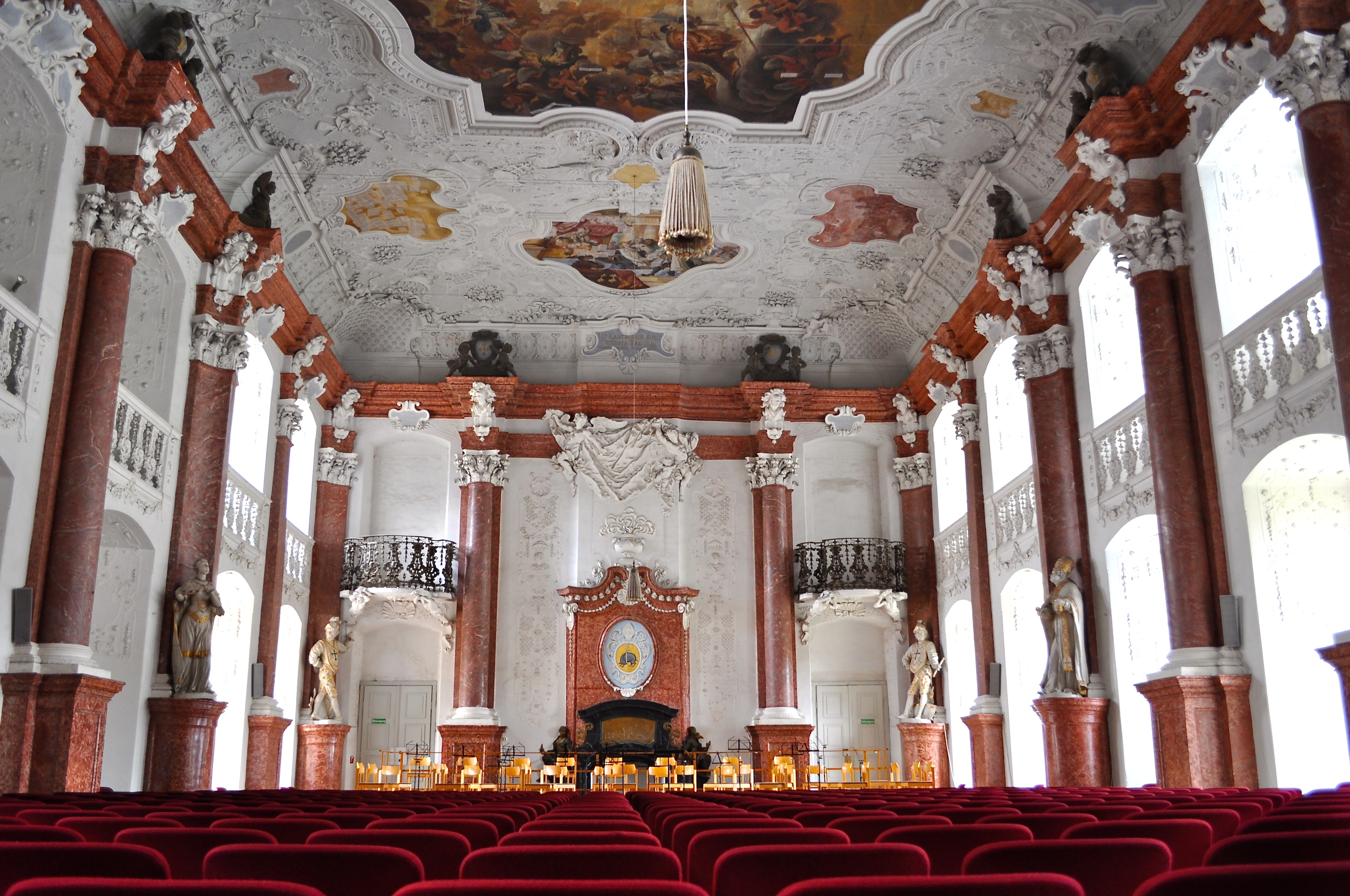 Kaisersaal, Kloster Ebrach